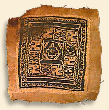 Square Tunic Ornament The ornament is dark blue with cream motifs, on a dark yellow ground. At the center of the ornament is an inconspicuous Greek (equal-armed) cross. Around the cross are twelve squares, containing hooked cross or a four-petaled rosette. The Christian motifs and the yellow ground of this textile indicate that it was probably worn by a Christian after the Arabs decided that Christians should wear distinctive clothing. Materials/Construction: This textile is made of wool, in a tapestry weave. Single rows of twining accentuate some of the straight lines of the design, and the whole ornament is edged by a double row of twining. Measurement: 14 x 14 cm. Date: Tenth century. Accession number: CAS 0389-2434.